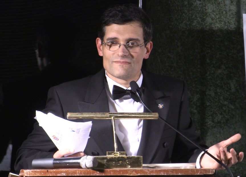 Carlos Evaristo: Portuguese Canadian Author, Researcer, Historian and TV Personality